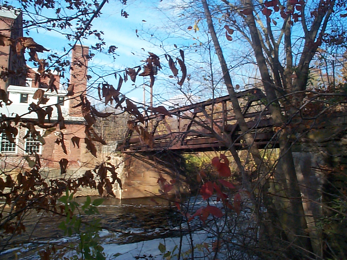 Starr Mill bridge spans the Conginchaug River in Middletown, Connecticut